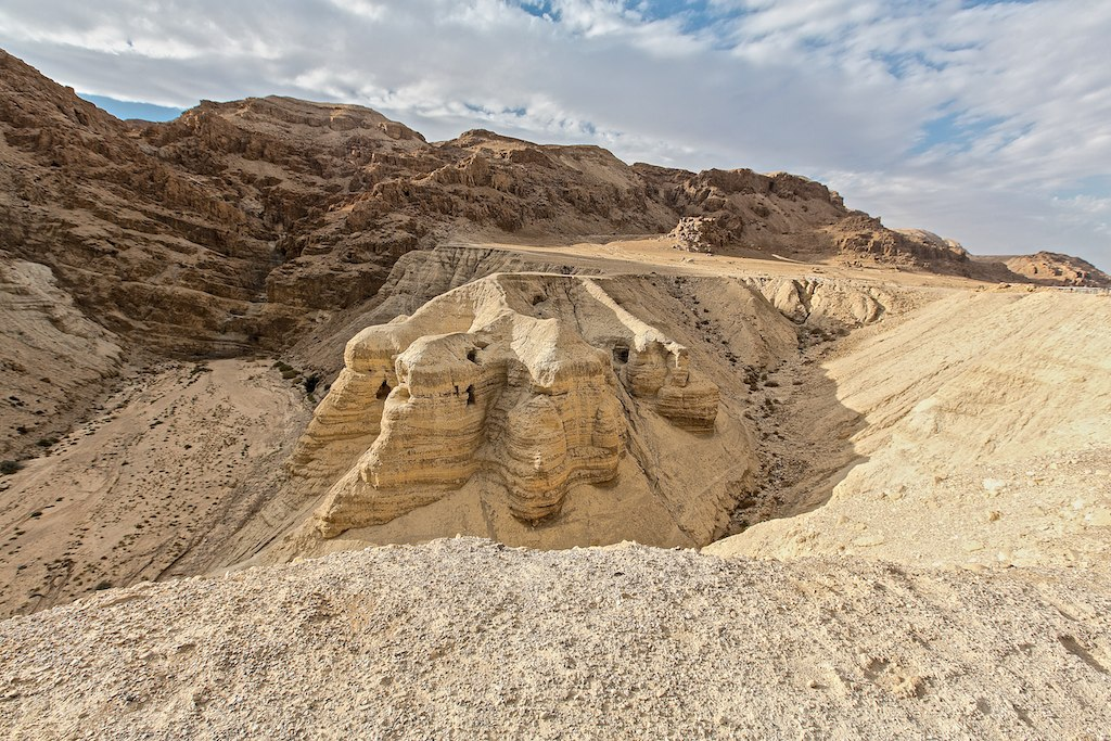 Caves@Dead Sea Scrolls